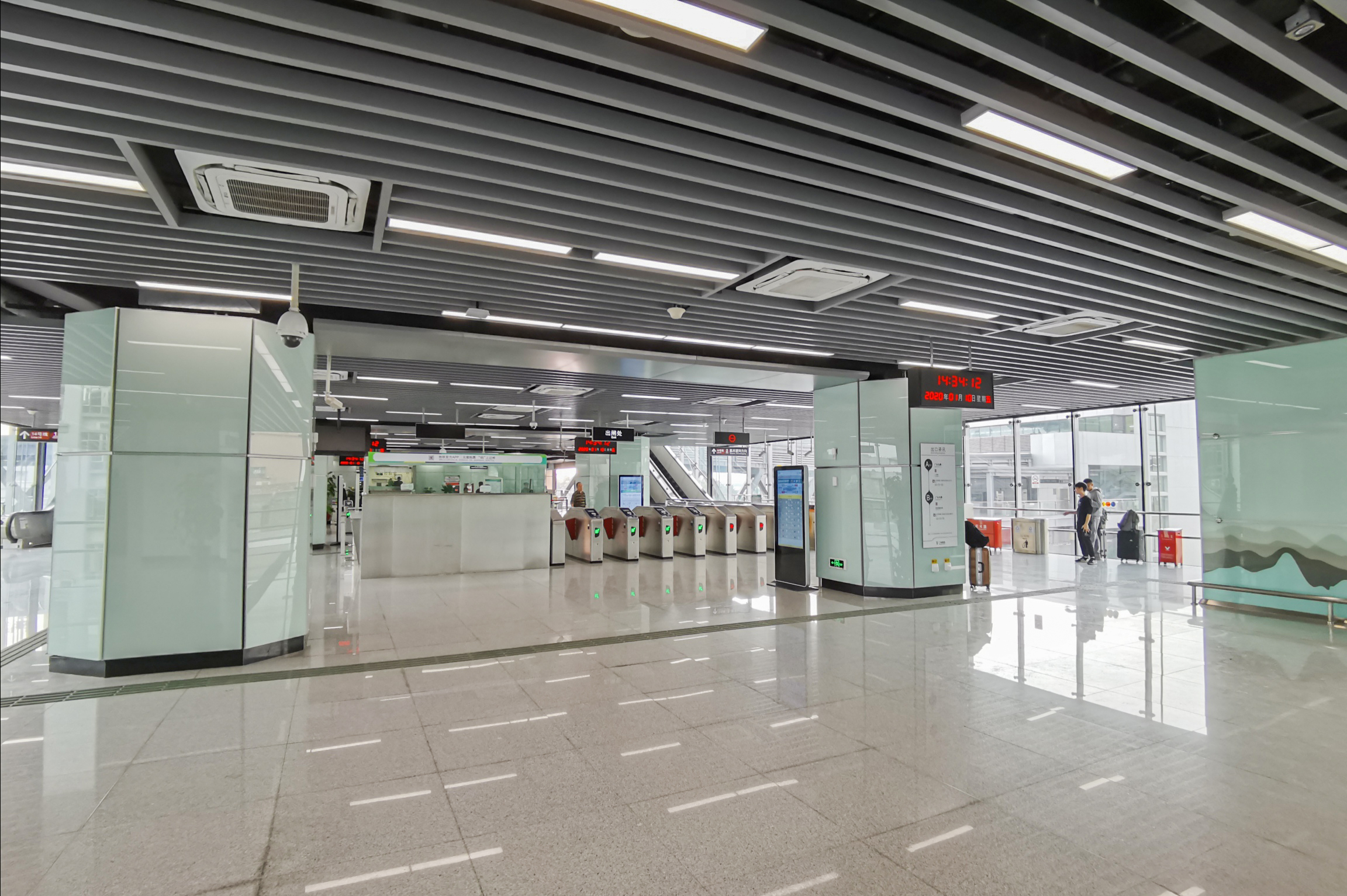 广州地铁马沥站